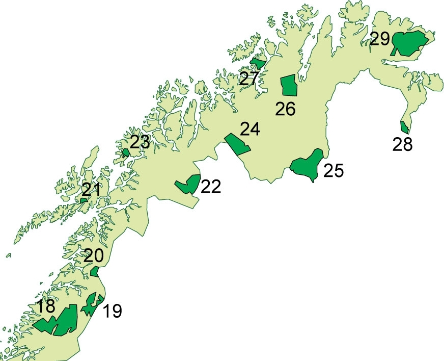 Map of the National Parks of North-Norway. The parks are 18: Saltfjellet-Svartisen nasjonalpark; 19: Junkerdal nasjonalpark; 20: Rago nasjonalpark; 21: Møysalen nasjonalpark; 22: Øvre dividal nasjonalpark; 23: Ånderdalen nasjonalpark; 24: Reisa nasjonalpark; 25: Øvre Anarjohka nasjonalpark; 26: Stabbursdalen nasjonalpark; 27: Seiland nasjonalpark; 28: Øvre Pasvik nasjonalpark; 29: Varangerhalvøya nasjonalpark (For legend